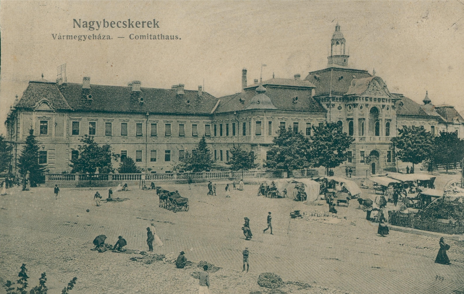 Postcardː County building in Becskerek in front of which there is a market (Inventory number: NMZ ZPU-668 (Art department, Collection of applied arts)) Српски (ћирилица): Разгледницаː Зграда Жупаније у Бечкереку, испред које се налази пијаца (Инвентарни број: НМЗ ЗПУ-668 (Уметничко одељење, Збирка примењене уметности))